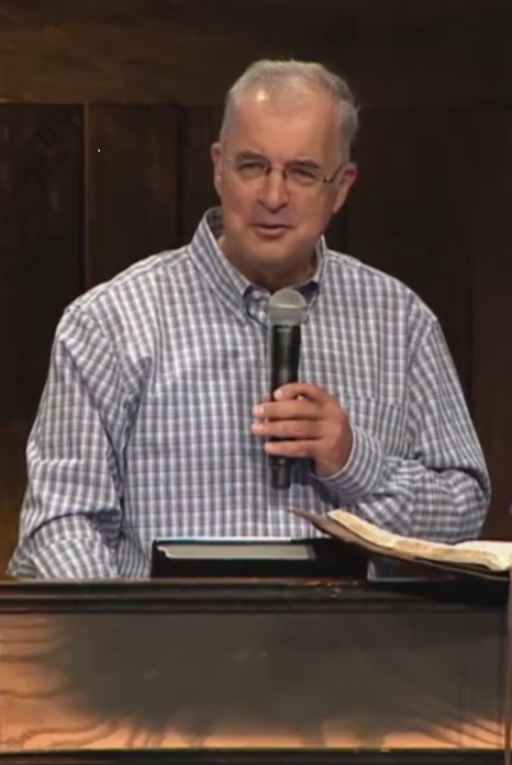 Mordechai Zaken (also Moti Zaken) in 2016